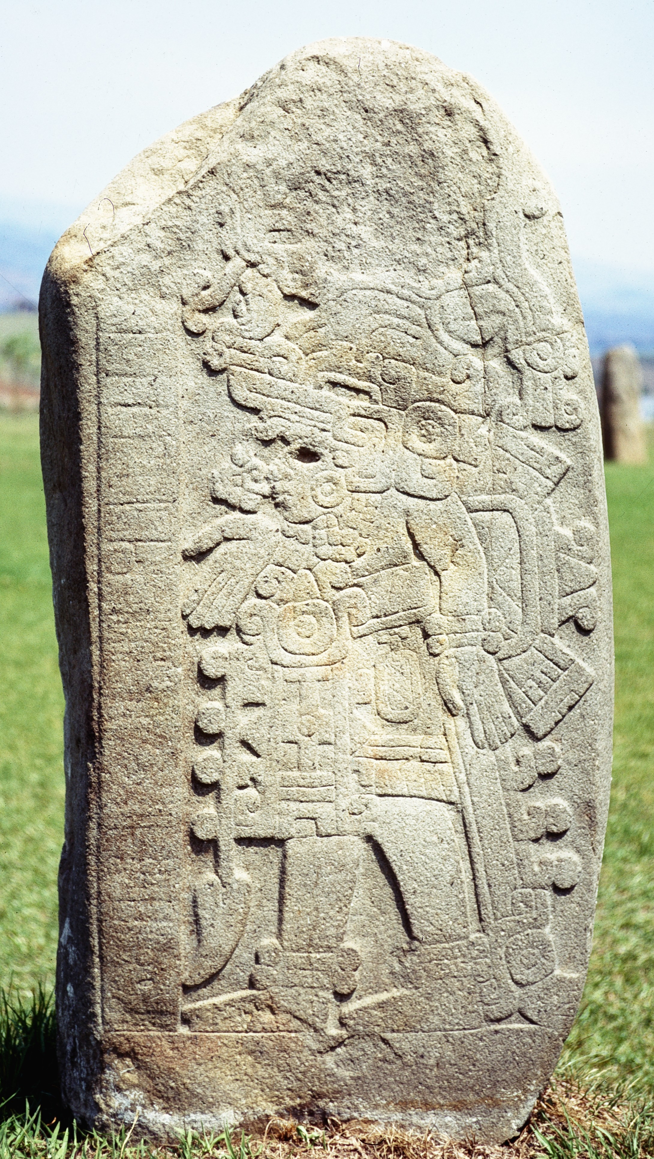 Stela 6 og Cerro de las Mesas, Jalapa archaeological Museum